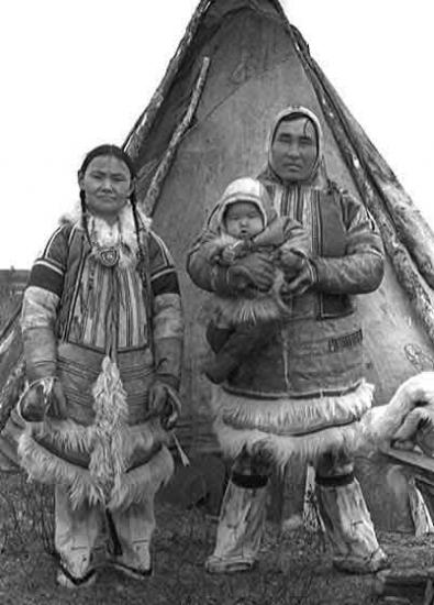 Samoyedic family